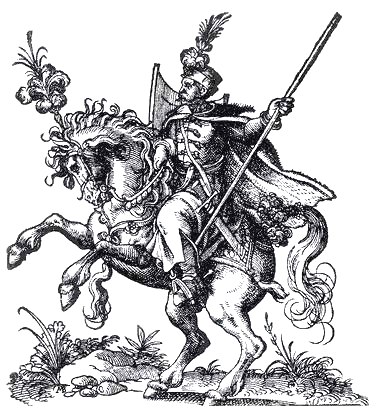 Polish hussar, late XVI or XVII century